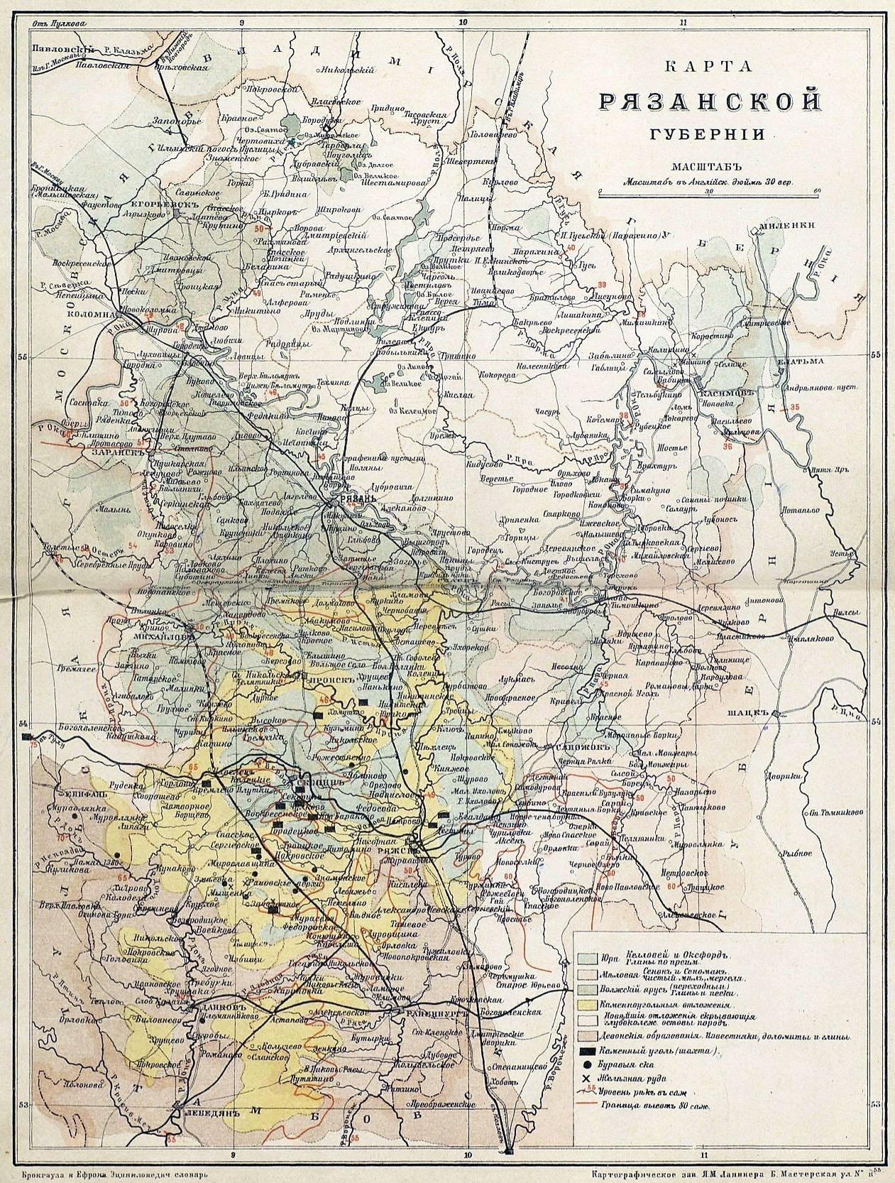 Ryazan Governorate